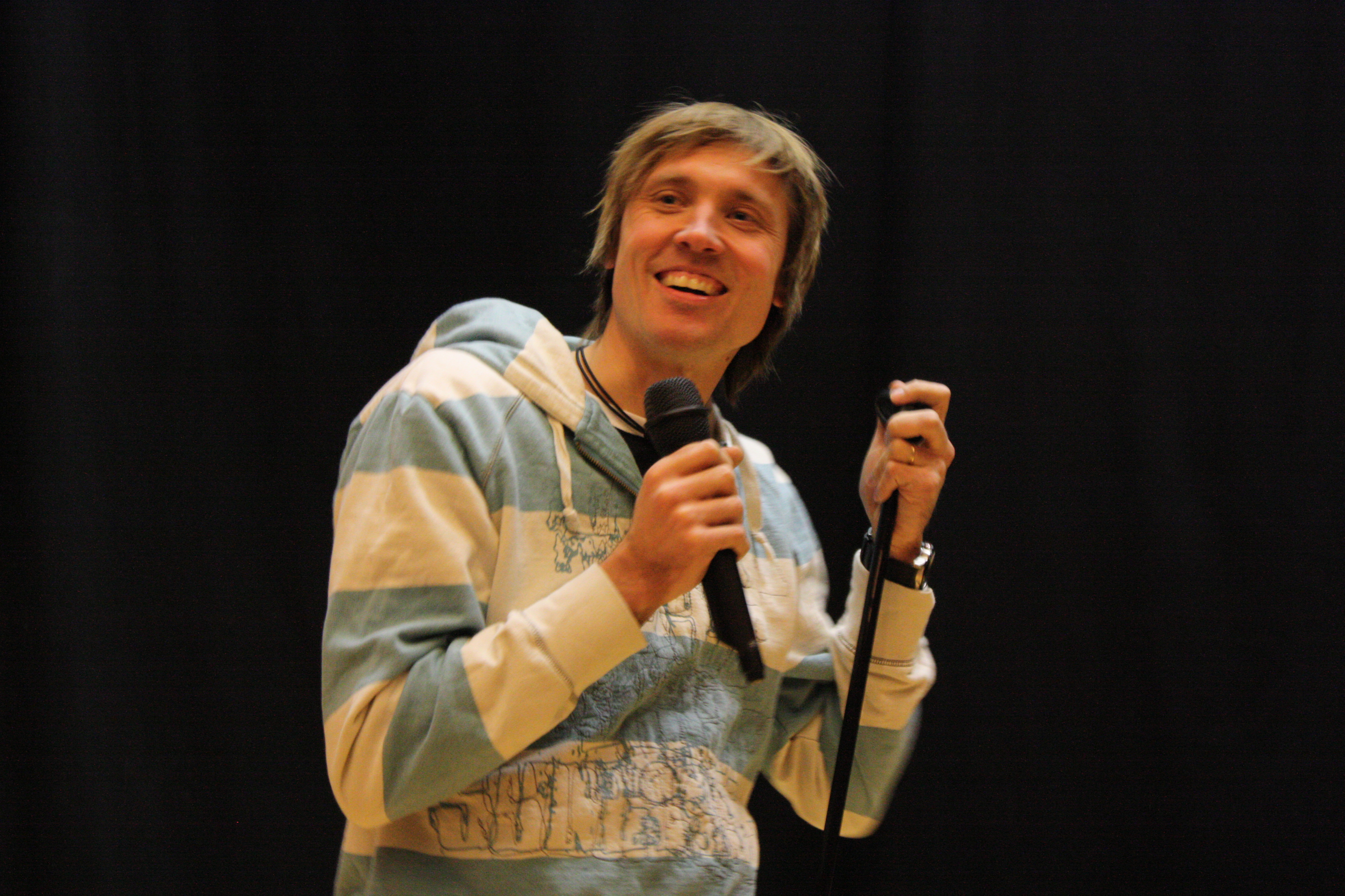 Mikko Vaismaa at Uusi alku -happening, Lempäälä in 2010.